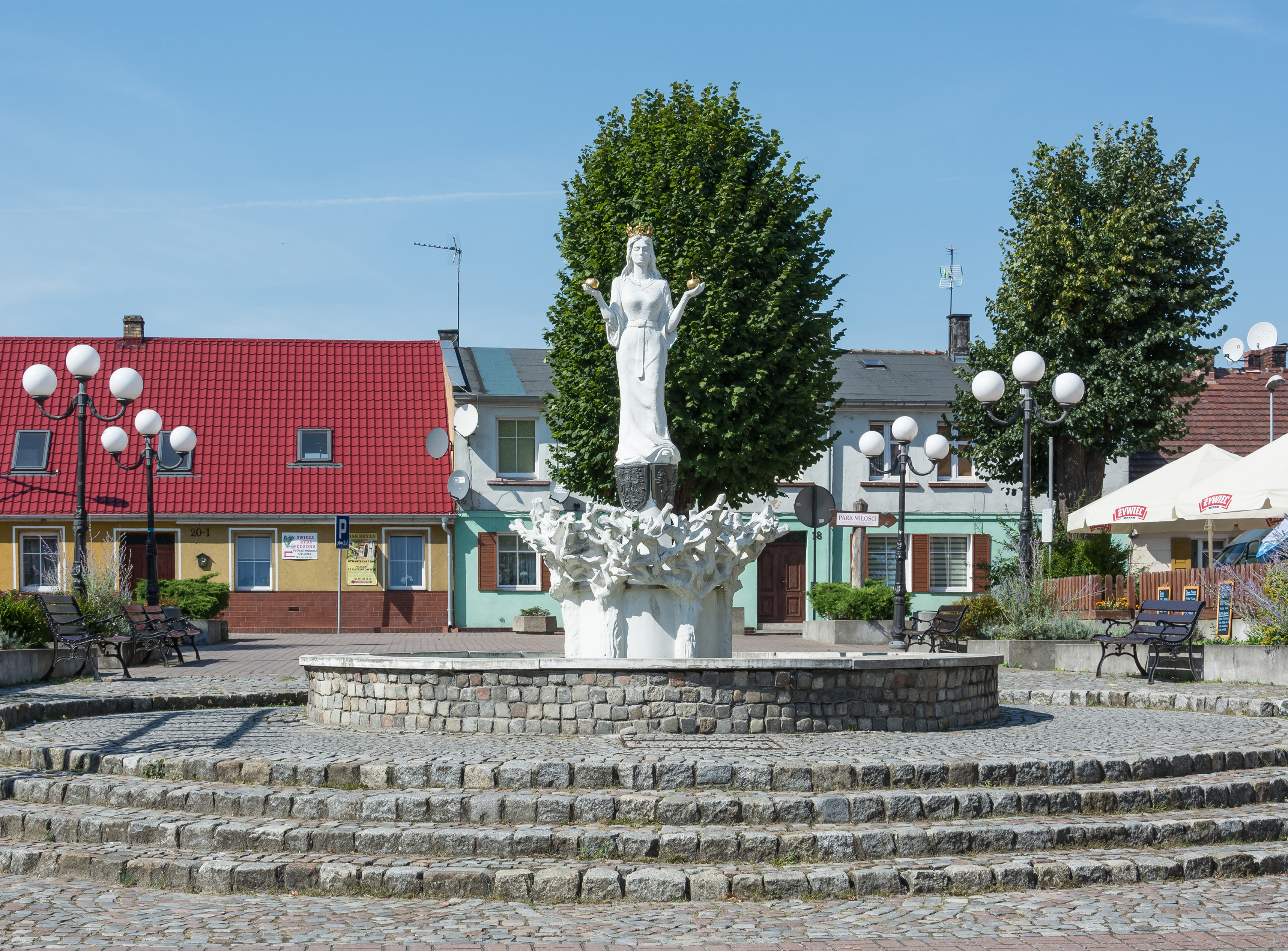 Fountain with rusalka in Lubniewice